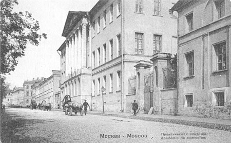 Durasov Palace in Moscow